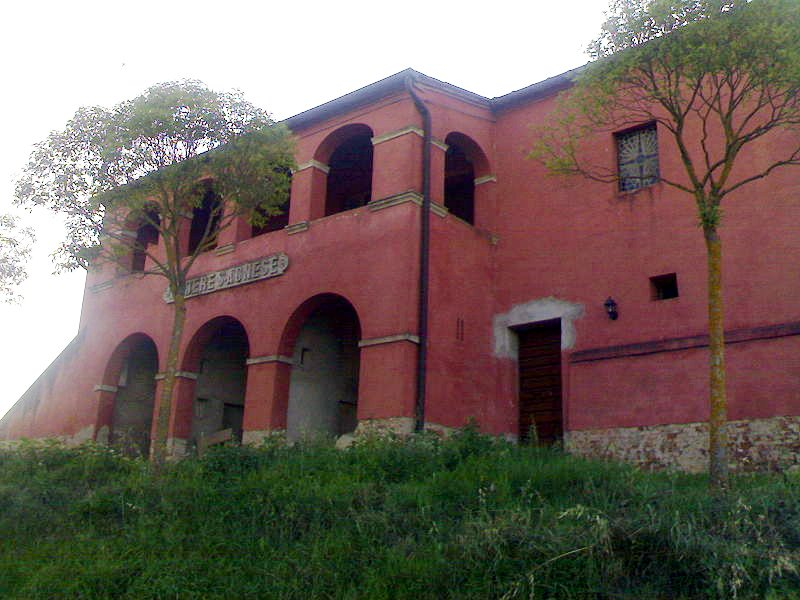 Gracciano - Home St. Agnes of Montepulciano